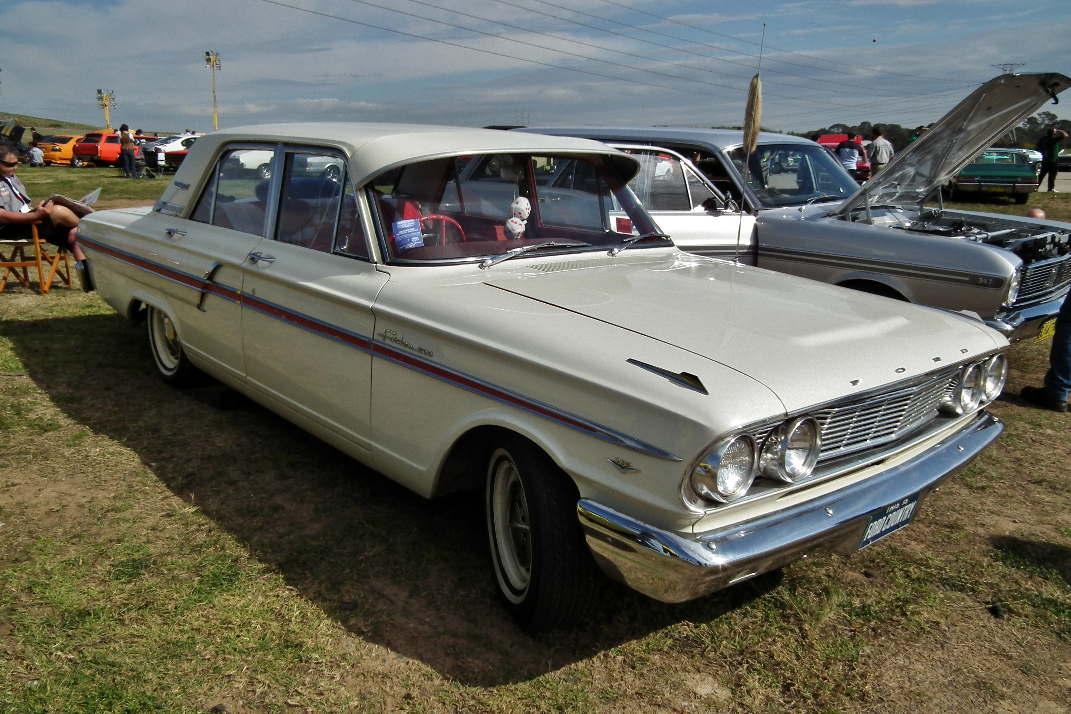 1964 Ford Fairlane 500 sedan. Taken at the 2011 New South Wales All Ford Day, held at Eastern Creek Raceway.